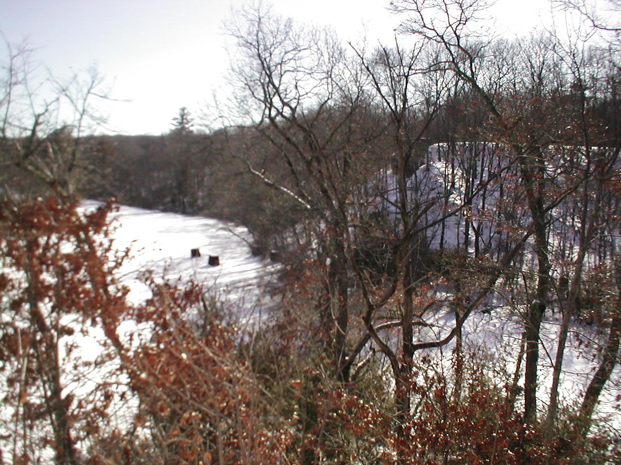 The 'Triple Crossing' of the active Providence & Worcester, former New York & New England, and unfinished Southern New England (abutments visible) in Milville, Massachusetts